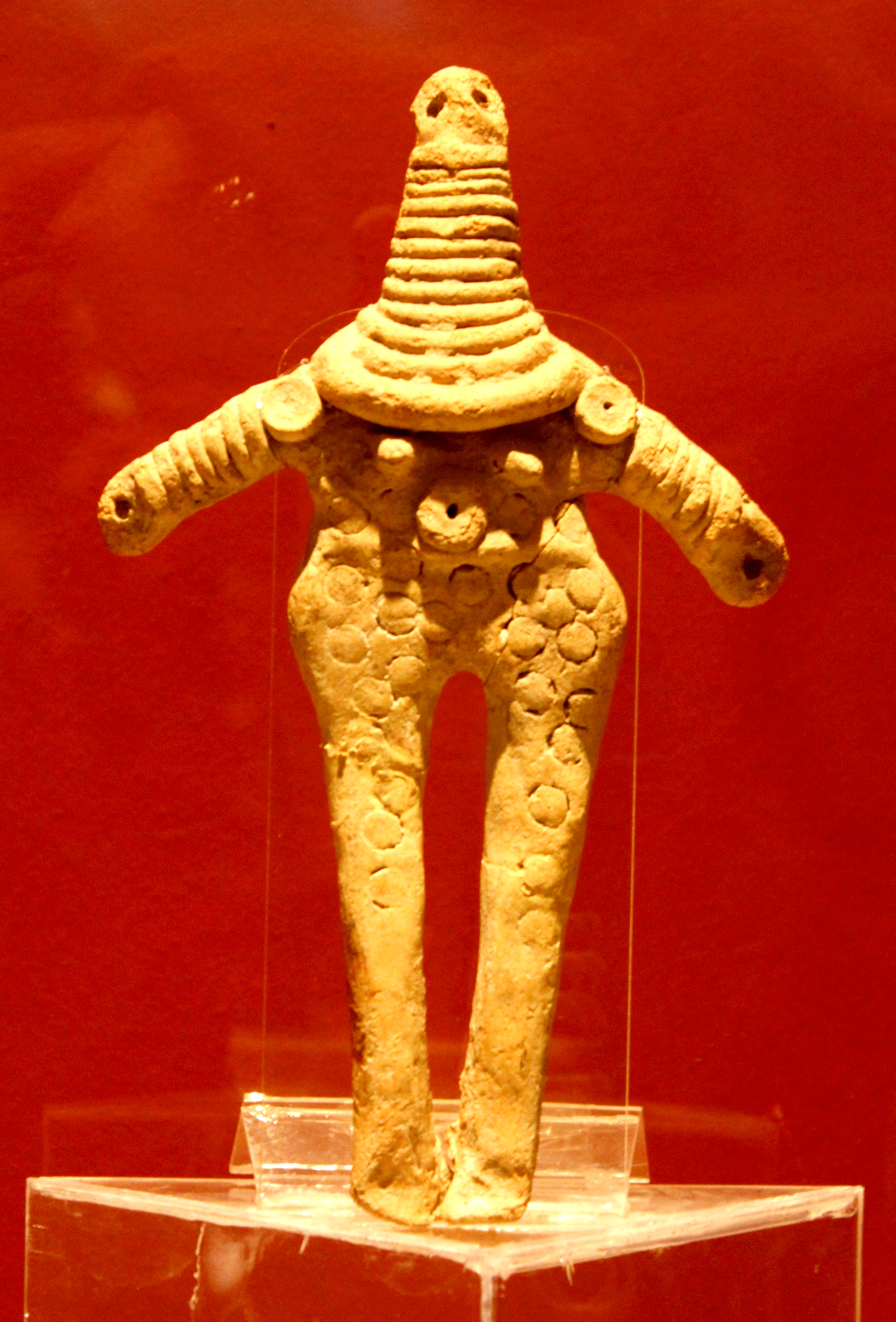 Female idol from Shaki, Azerbaijan 3rd - 2nd millenium BC